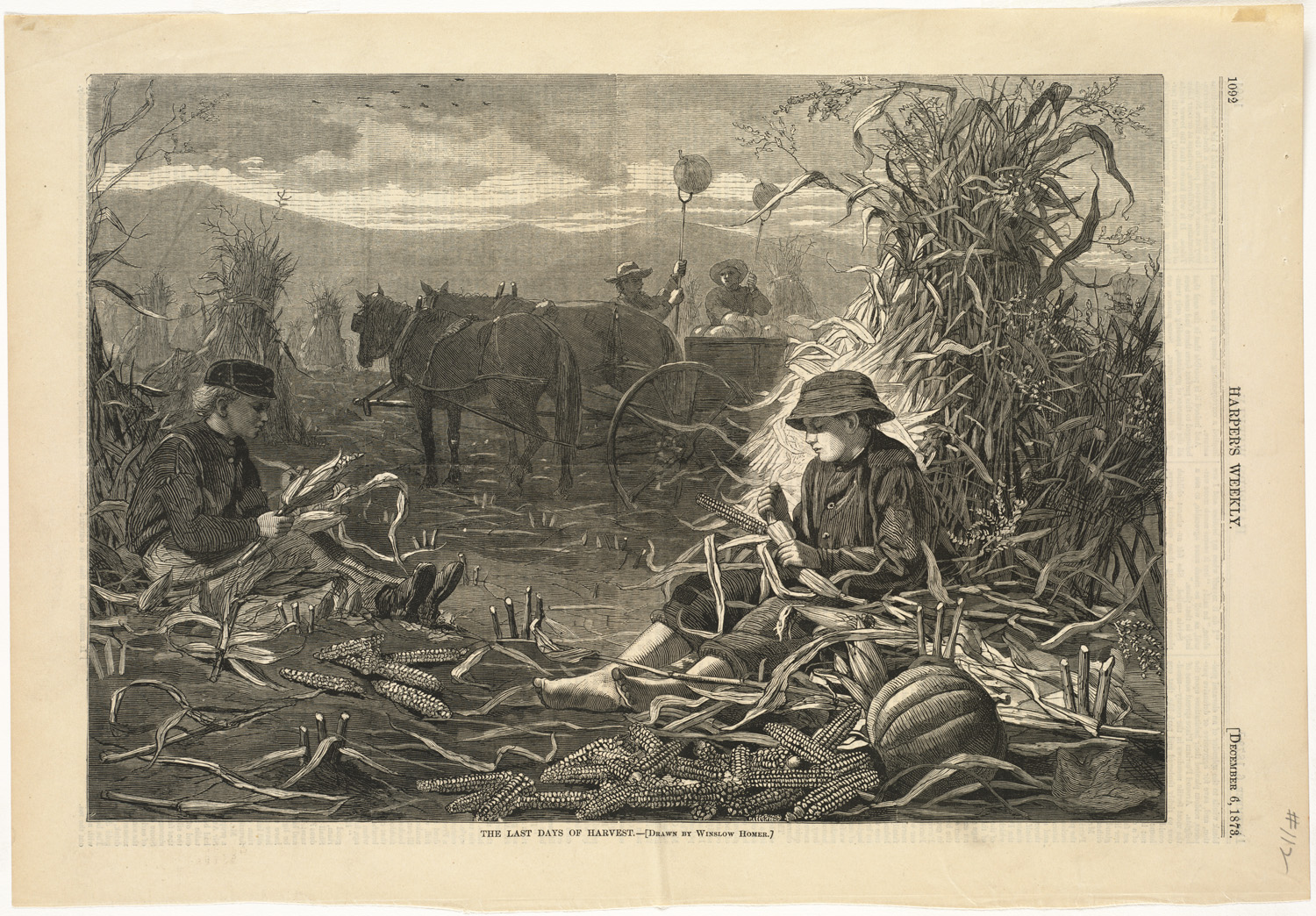 File name: 10_09_000112 Title: The last days of harvest Creator/Contributor: Homer, Winslow, 1836-1910 (artist) Date issued: 1873-12-06 Physical description: 1 print : wood engraving Genre: Wood engravings; Periodical illustrations Notes: Published in: Harper's Weekly, Volume XVII, 6 December 1873, p. 1092.; Drawn by Winslow Homer. Collection: Winslow Homer Collection Location: Boston Public Library, Print Department Rights: No known restrictions Flickr data on 2011-08-11: Camera: Sinar AG Sinarback 54 FW, Sinar m Tags: Winslow Homer User: Boston Public Library BPL